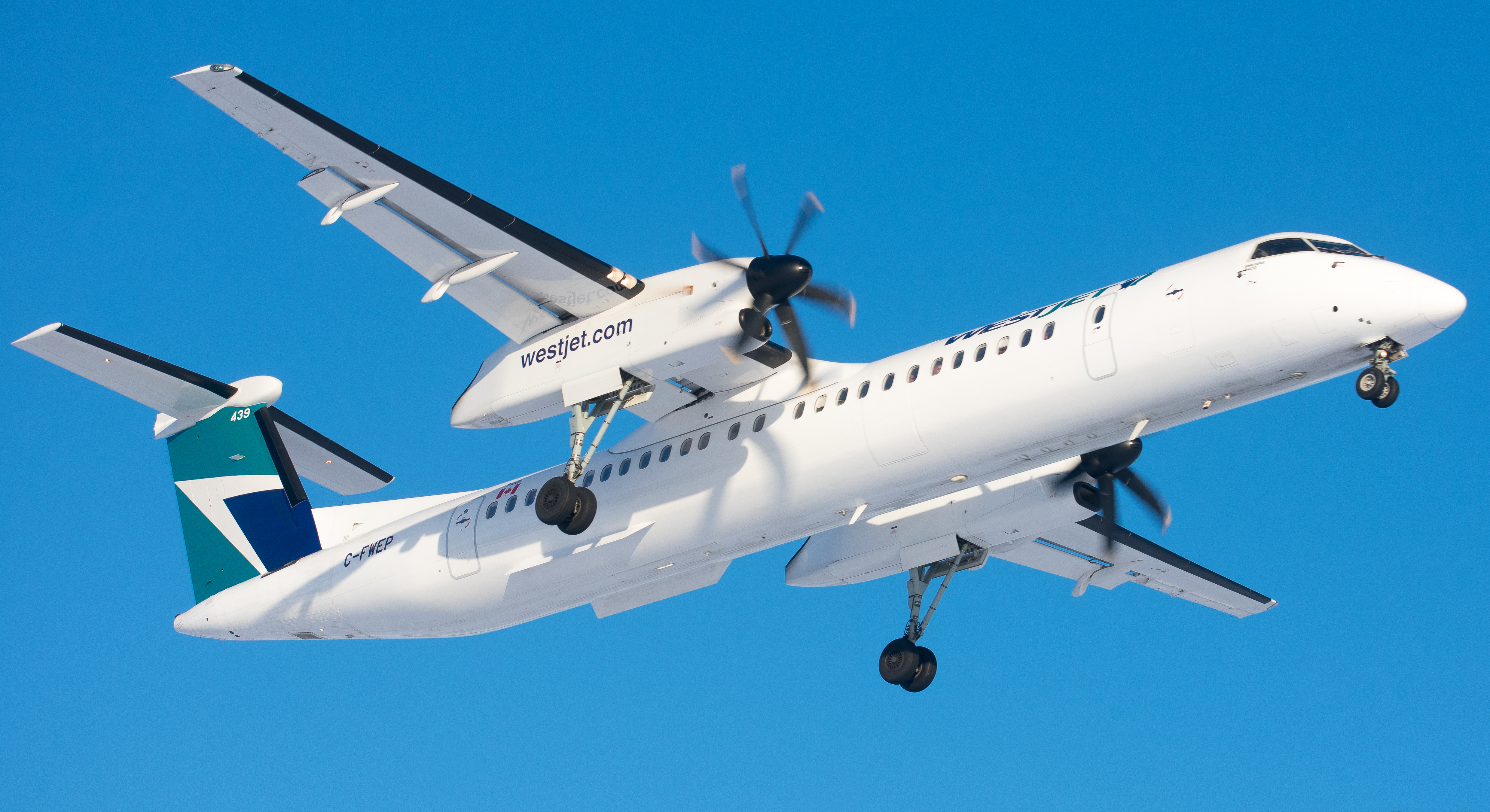 C-FWEP Westjet Encore Dash 8-Q400